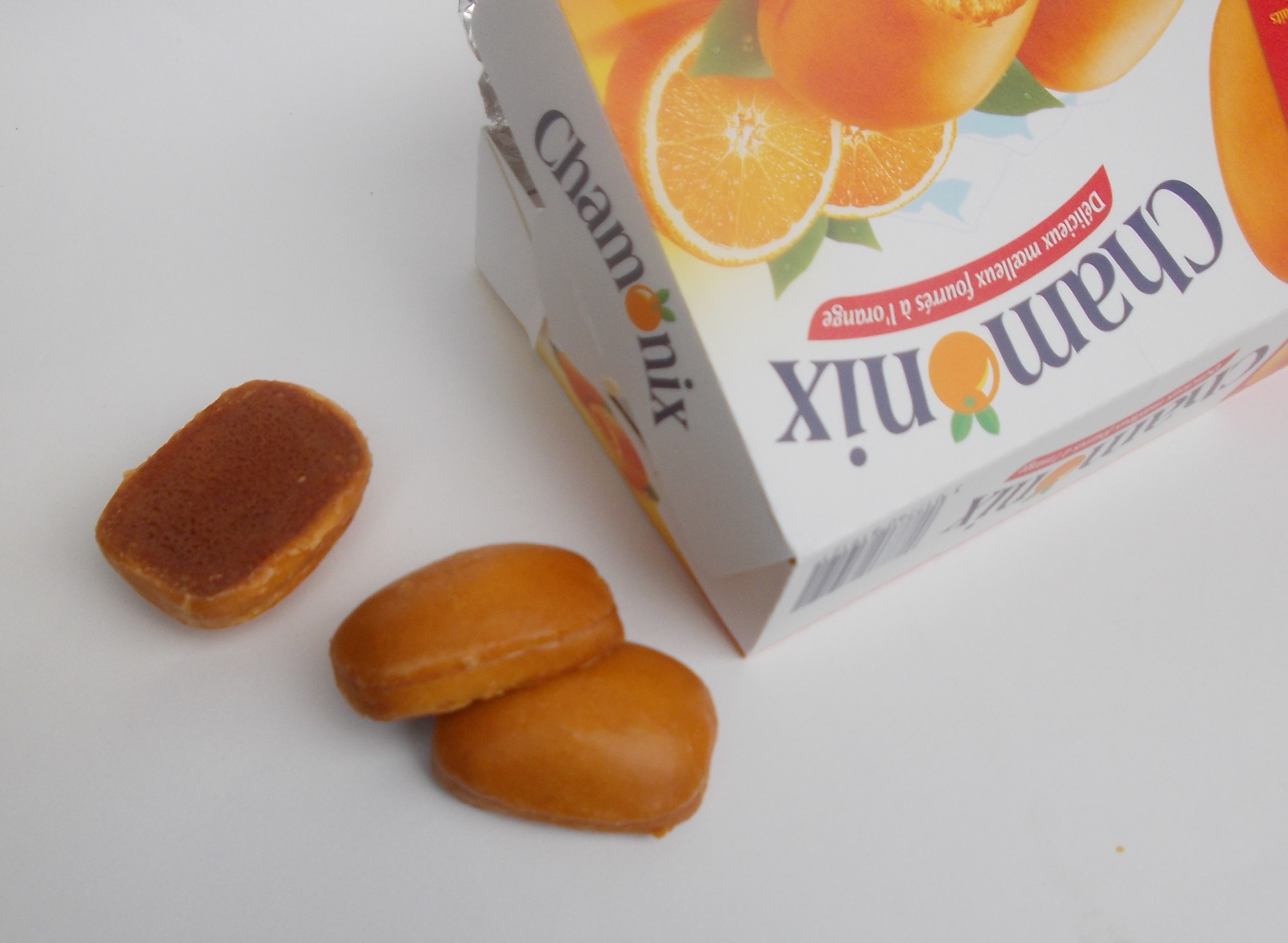 Chamonix orange de LU (Lefèvre-Utile) (small cakes with orange puree filling)